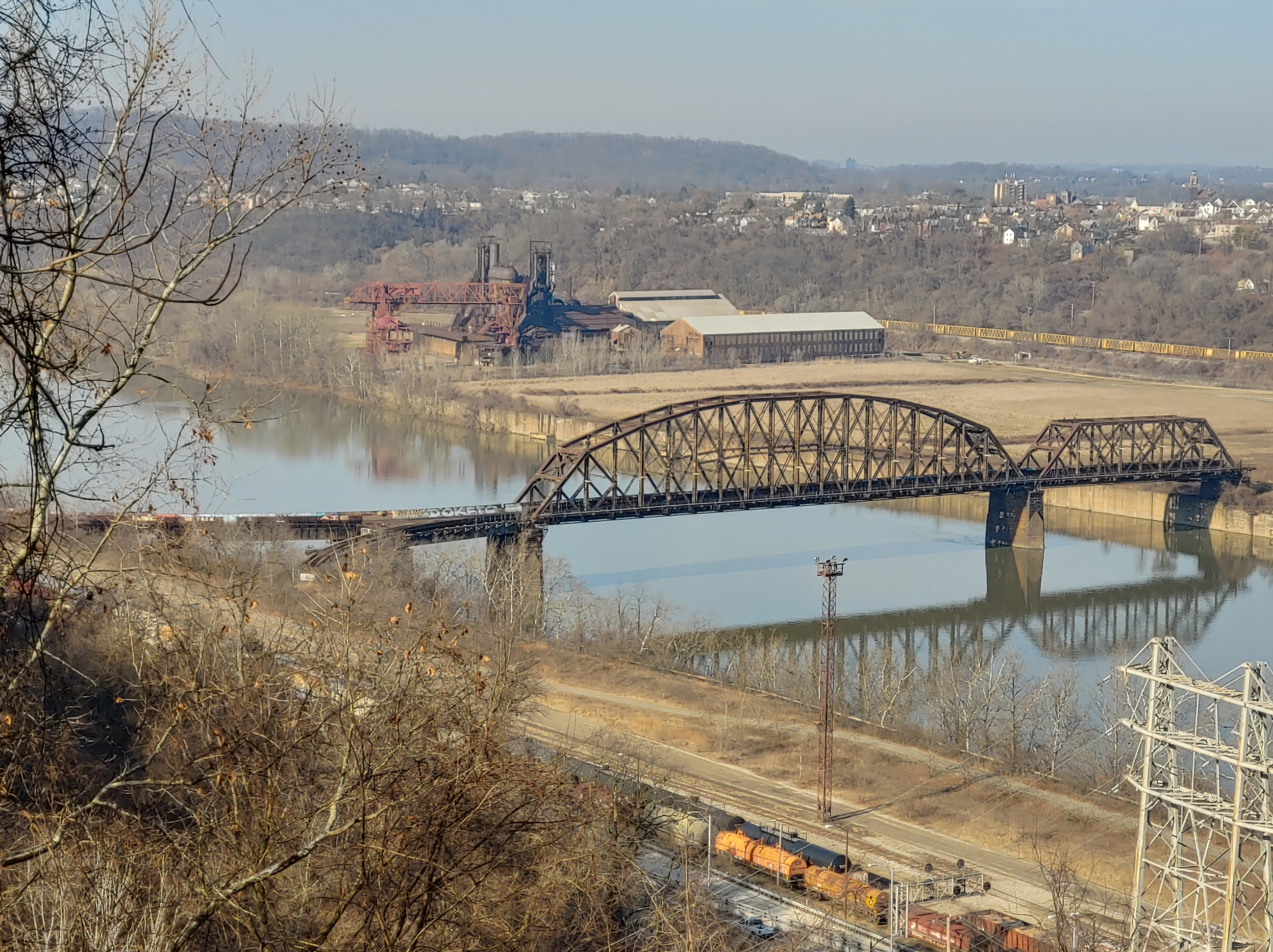 A view of the Carrie Furnace Hot Metal Bridge, with Carrie Furnace in the background. As seen from Whitaker Ball Field in Whitaker.